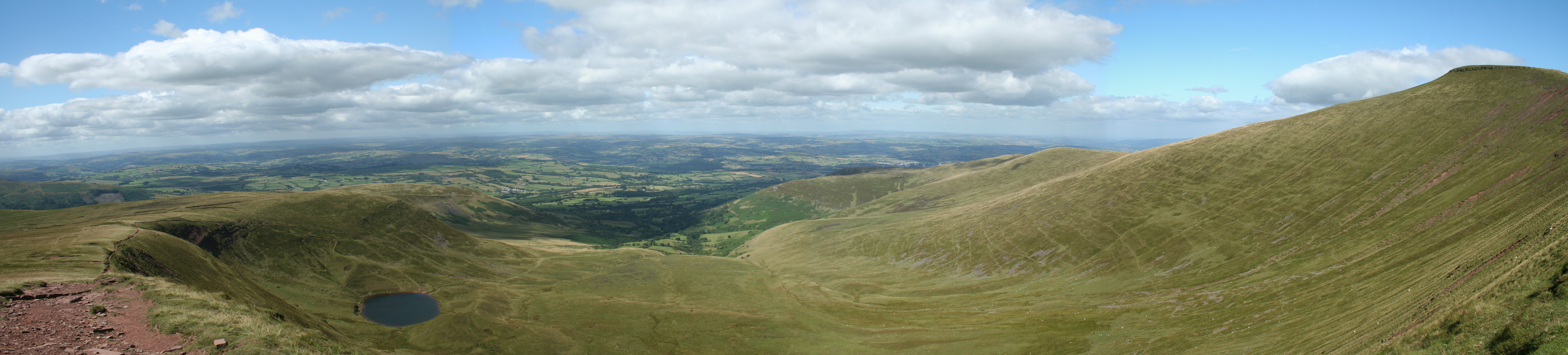 View down from Corn Du, Brecon Beacons National Park, Wales UK.